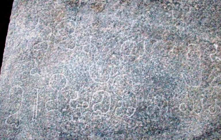 Mandagappattu Temple, Inscription in Pallava Grantha script (a Tamil script around the 7th century)